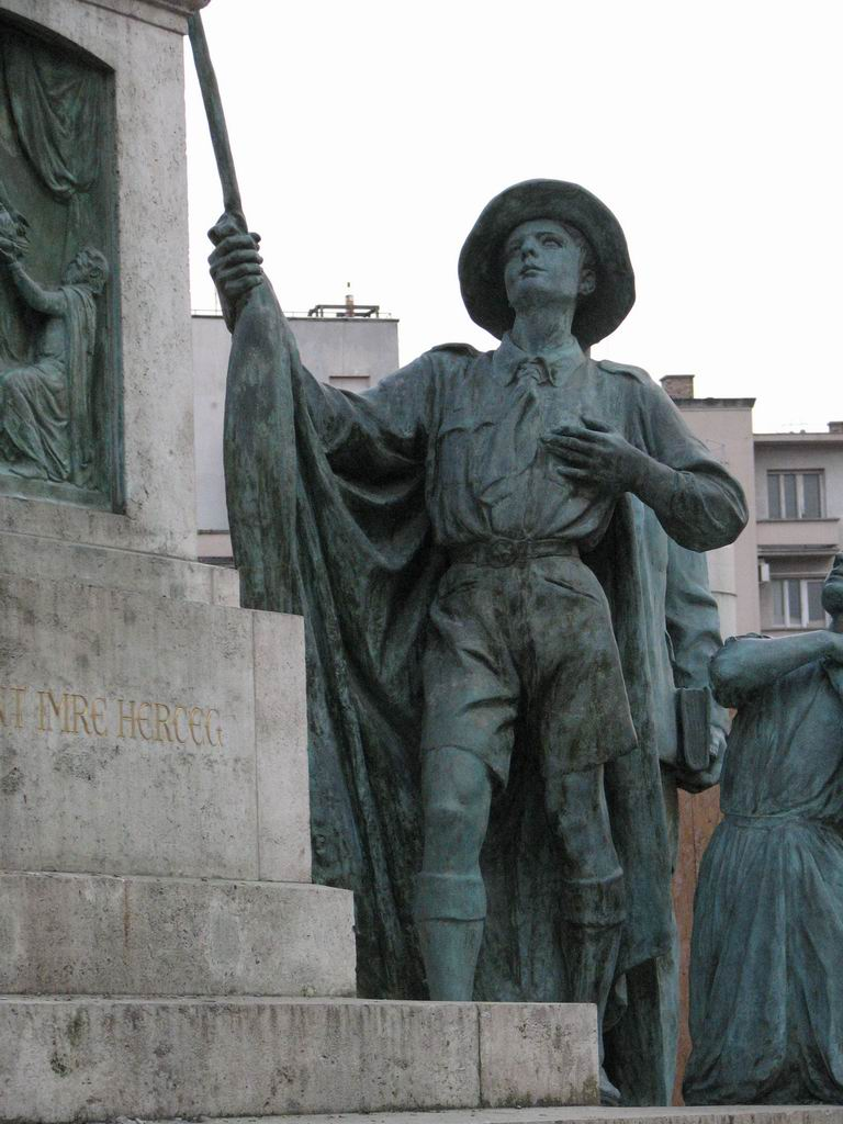 Scout statue, as a part of the Prince St. Emeric monument, Budapest, Hungary by Zsigmond Kisfaludi Stróbl circa 1930